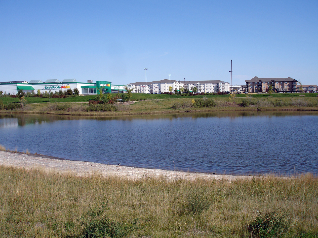 Trounce Pond, a stormwater retention pond landscaped with natural grassland plants. Located in the Lakewood Suburban Centre in the city of Saskatoon, Saskatchewan, Canada.